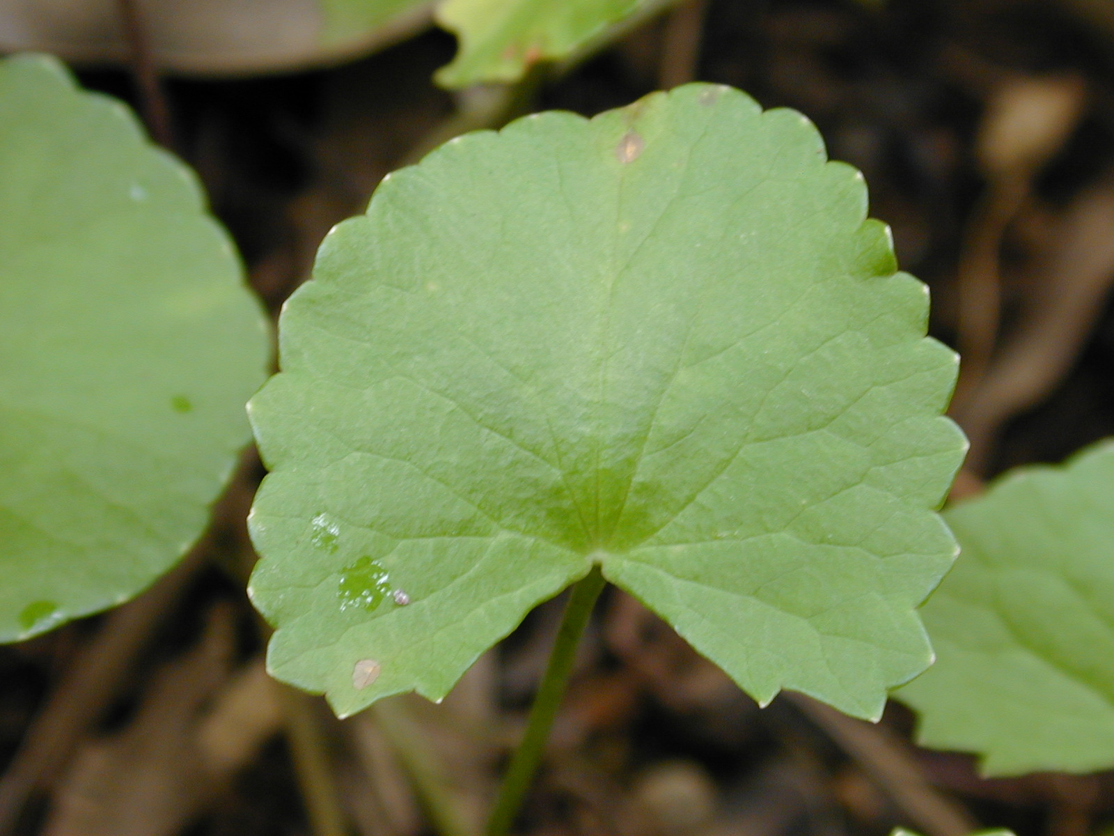 Centella asiatica (leaf). Location: Maui, Wahinepee